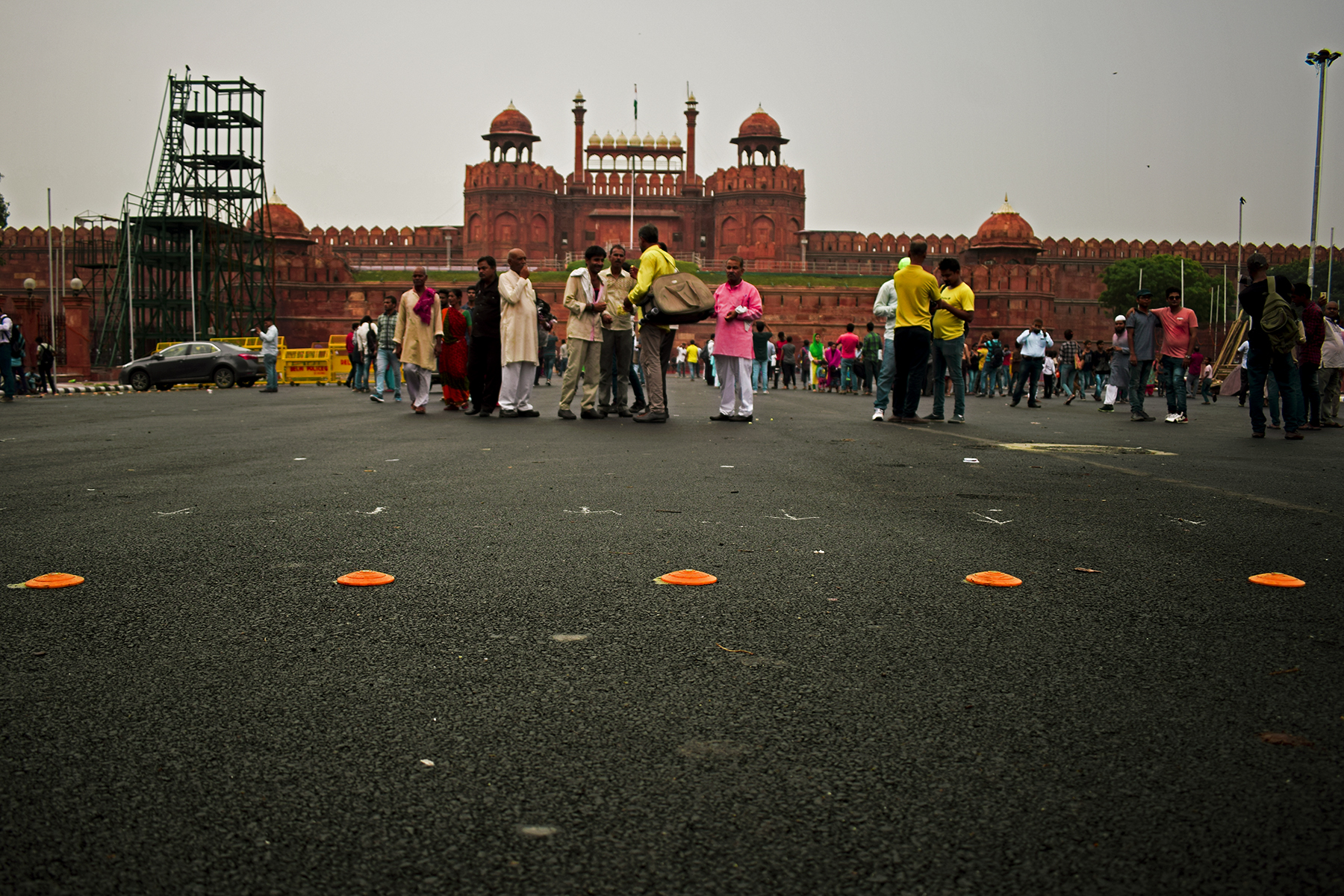 The Red Fort is a historical fortification in the national capital of New Delhi. Located in the center of the city, it was the main residence of the emperors of the Mughal dynasty. It was constructed by Shah Jahan in the year 1939 as a result of a capital shift from Agra to Delhi. This imposing piece of architecture derives its name from its impregnable red sandstone walls.Today, this monument is home to a number of museums that have an assortment of precious artifacts on display. Every year, the Indian Prime Minister unfurls the national flag here on the Independence Day. The entire fort complex is said to represent the architectural creativity and brilliance of Mughal architecture.Formerly known as Quila-e-Mubarak or the Blessed Fort, the Red Fort lies along the banks of the river Yamuna, whose waters fed the moats surrounding the fort. It was a part of the medieval city of Shahjahanabad, popularly known today as 'Old Delhi'.